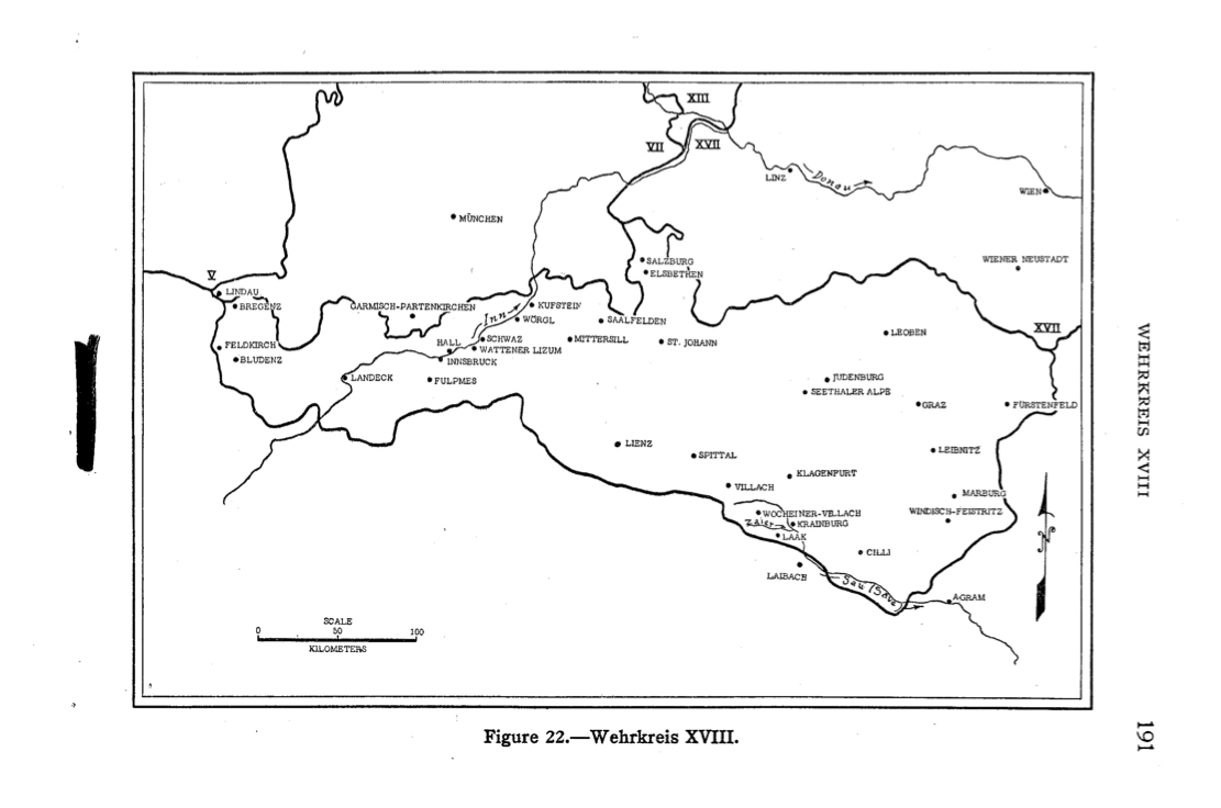 Map of the Wehrkreis, Military District, XVIII.